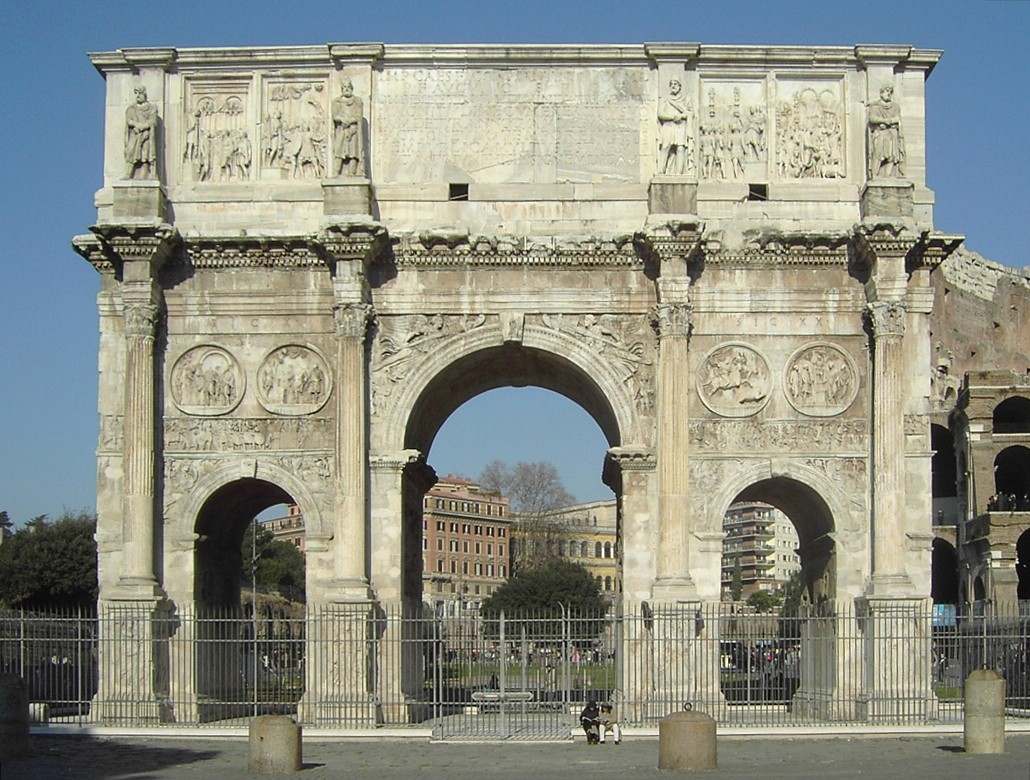 Rome, Arch of Constantine, by Alexander Z., 2005-01-06